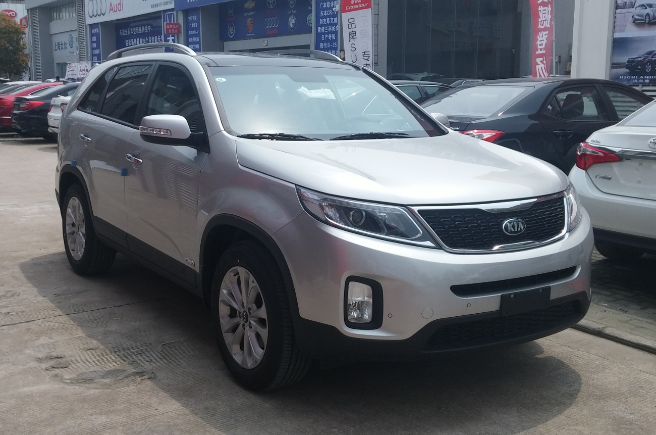 Kia Sorento R facelift photographed in Wuhan, Hubei province, China.